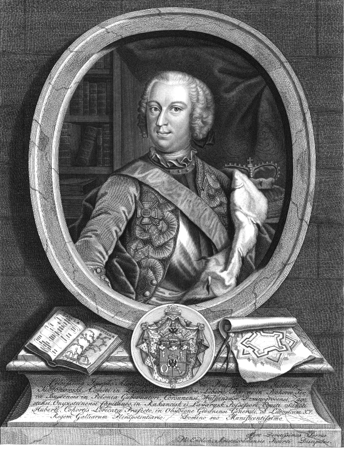 Józef Aleksander Jabłonowski